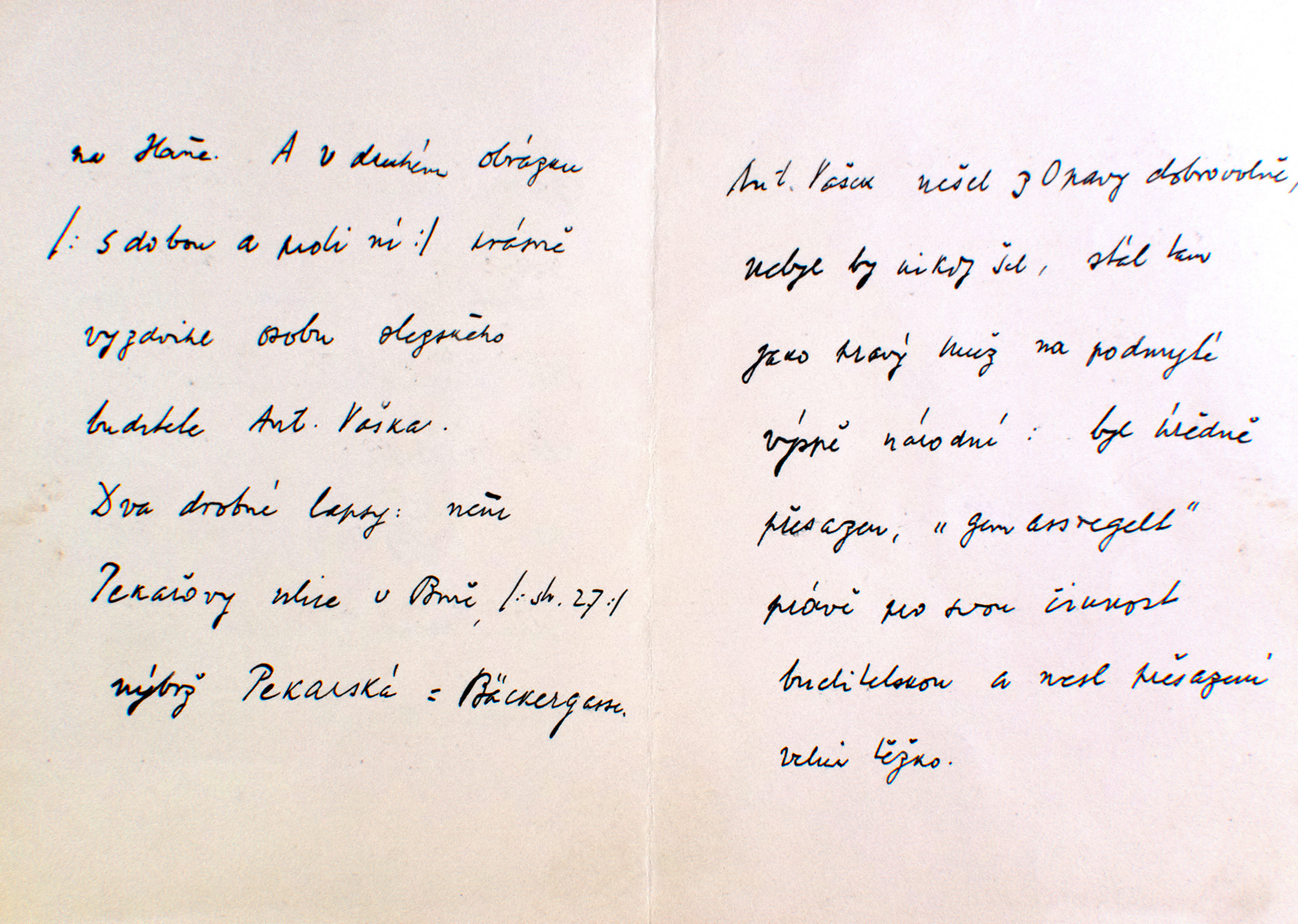 Letter from poet Vladislav Vašek aka Petr Bezruč to writer Stanislav Jandík